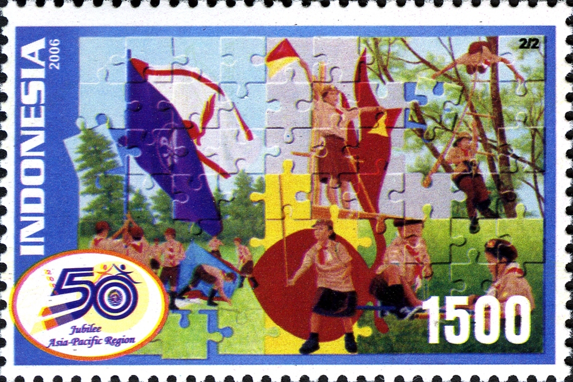 Stamps of Indonesia